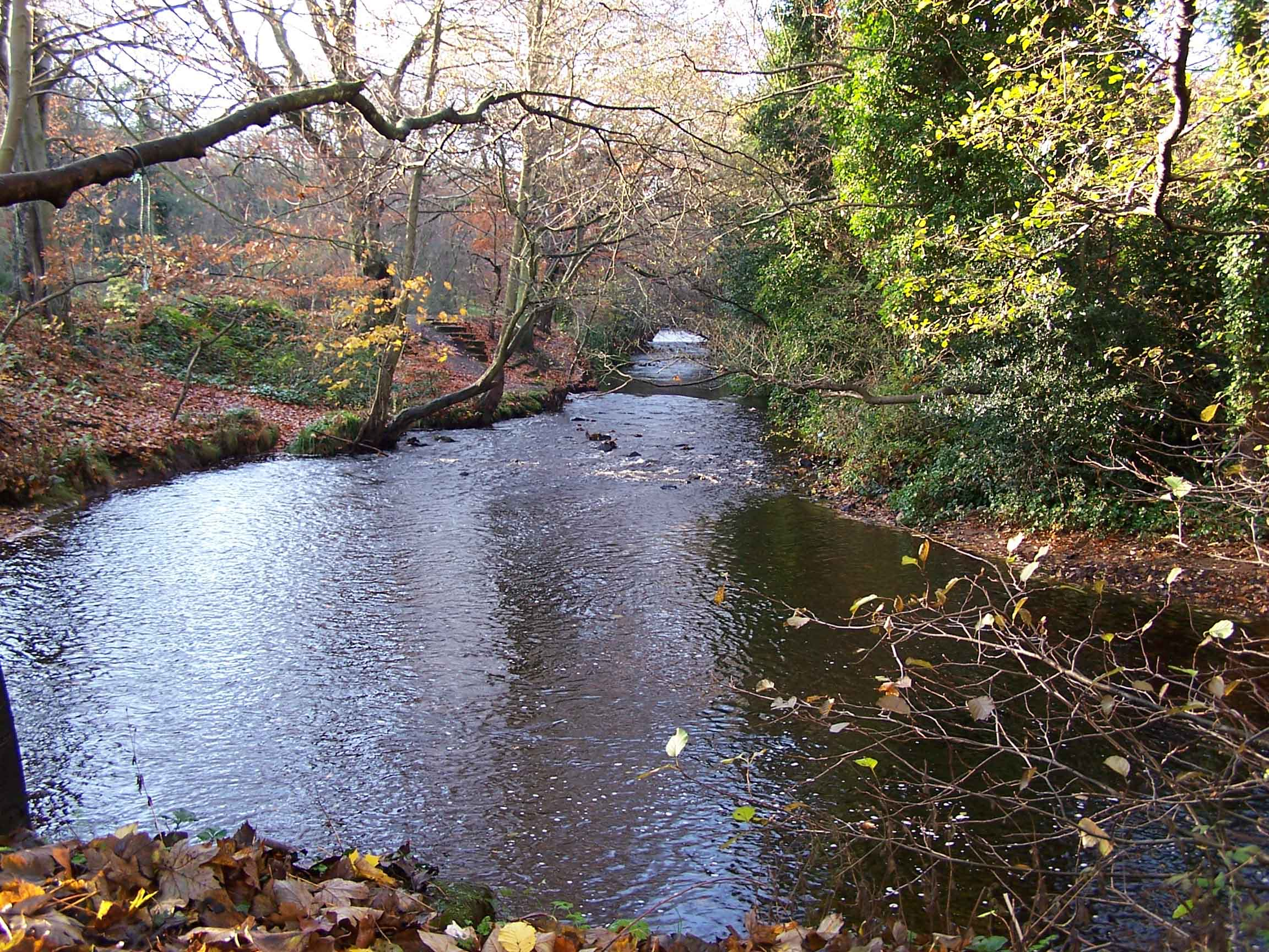 River Rivelin at the site of Walkley Bank Tilt, less than a kilometre from its confluence with the River Loxley at Malin Bridge